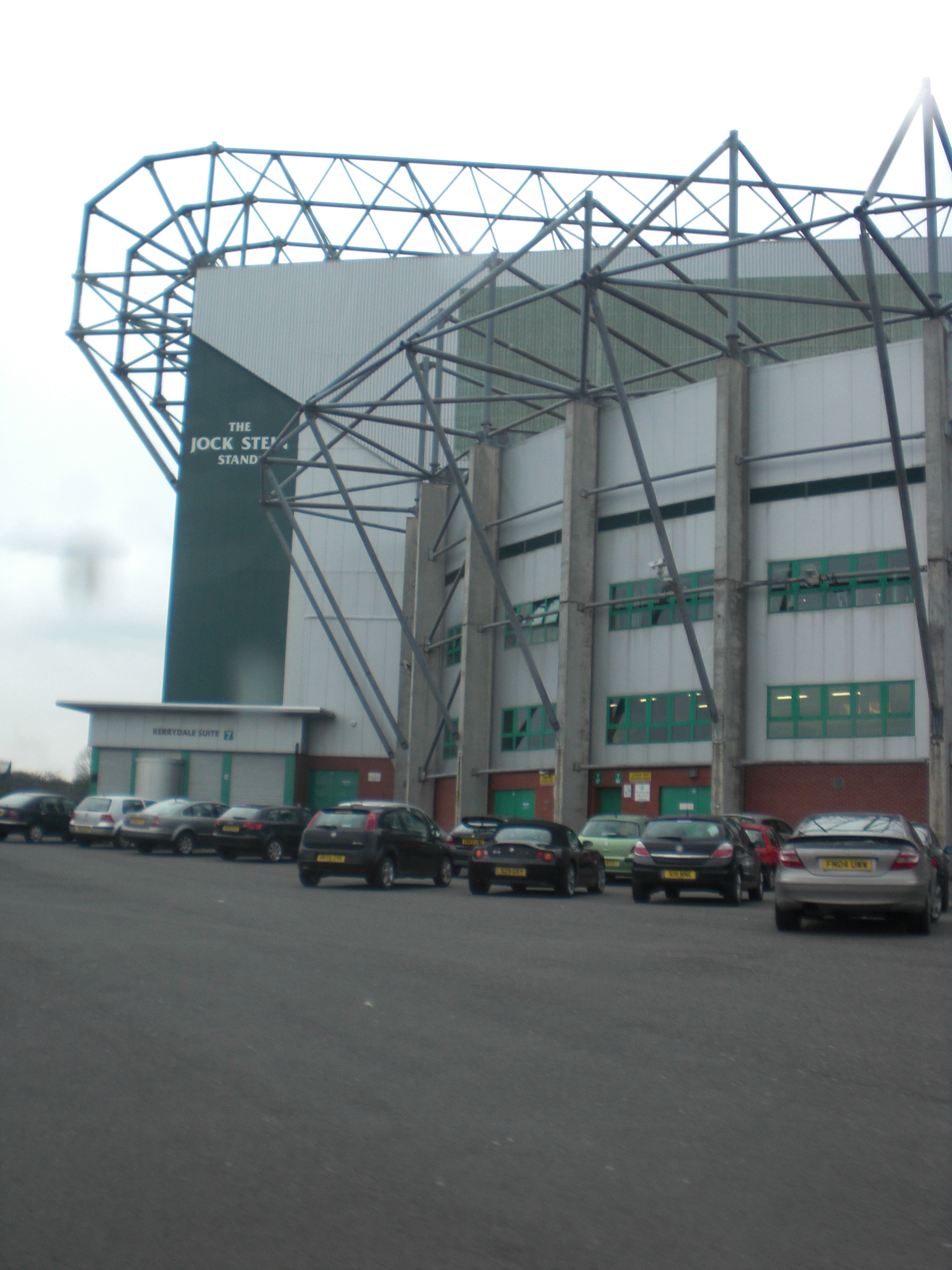 Parkhead Stadium, Jock Stein Stand, Glasgow, Skottland.